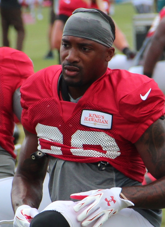 Alford at Falcons training camp, 2014